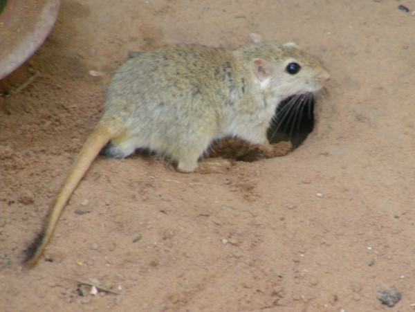 Indian Desert Jird Meriones hurrianae, Rodentia, Mammalia Jird poised about to enter its nesting hole. Photographed in Pokaran, district Jaisalmer, Rajasthan, India on 05 Jun 06. Self-work. AshLin 13:48, 24 September 2006 (UTC)